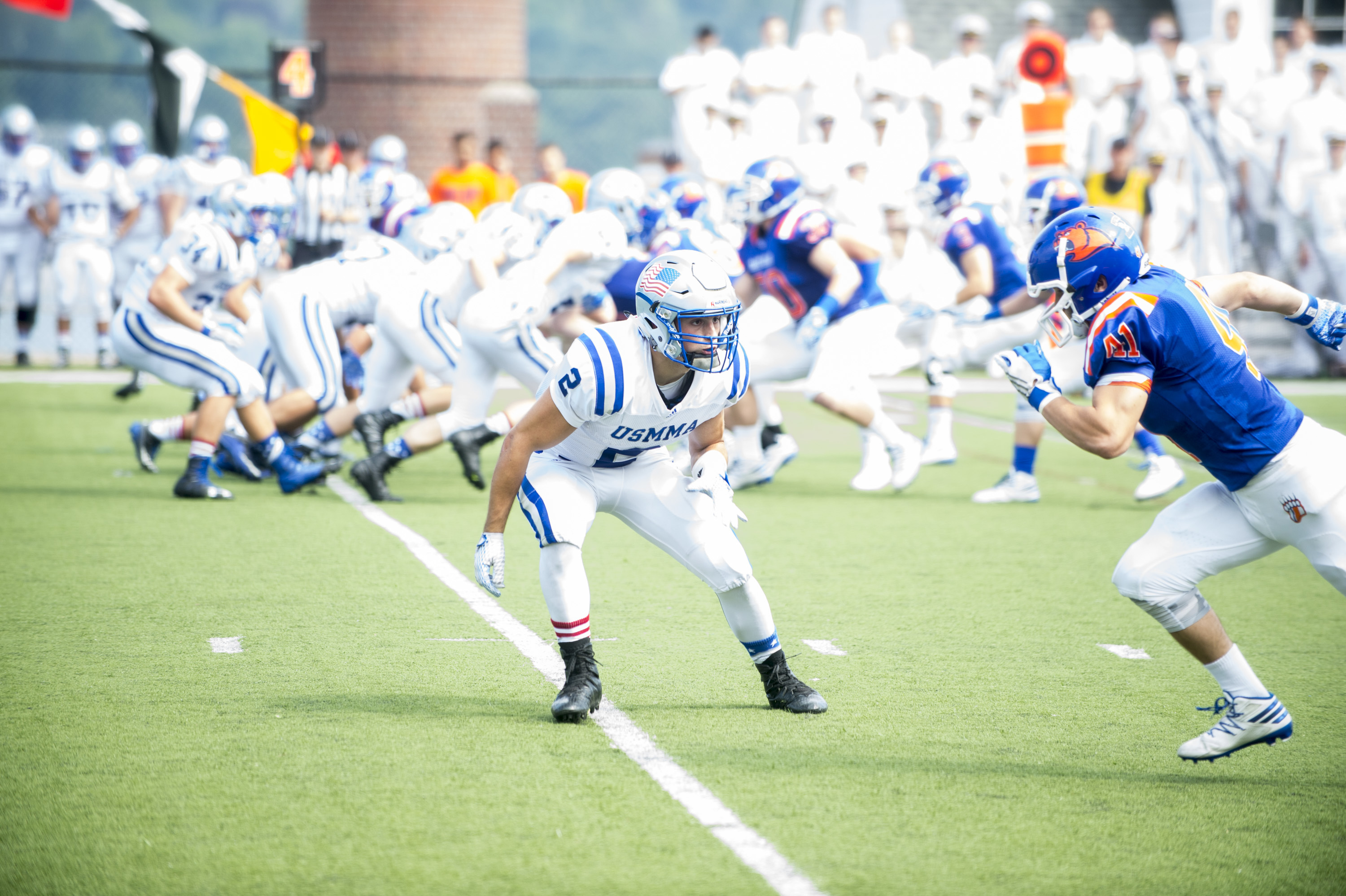 The U.S. Coast Guard Academy and the Merchant Marine Academy participated in the annual Secretaries Cup, Sept. 10, 2016. The Secretaries Cup is an annual NCAA Division III athletics college football game between the Coast Guard Academy and the Merchant Marine Academy. U.S. Coast Guard photo by Petty Officer 2nd Class Richard Brahm.